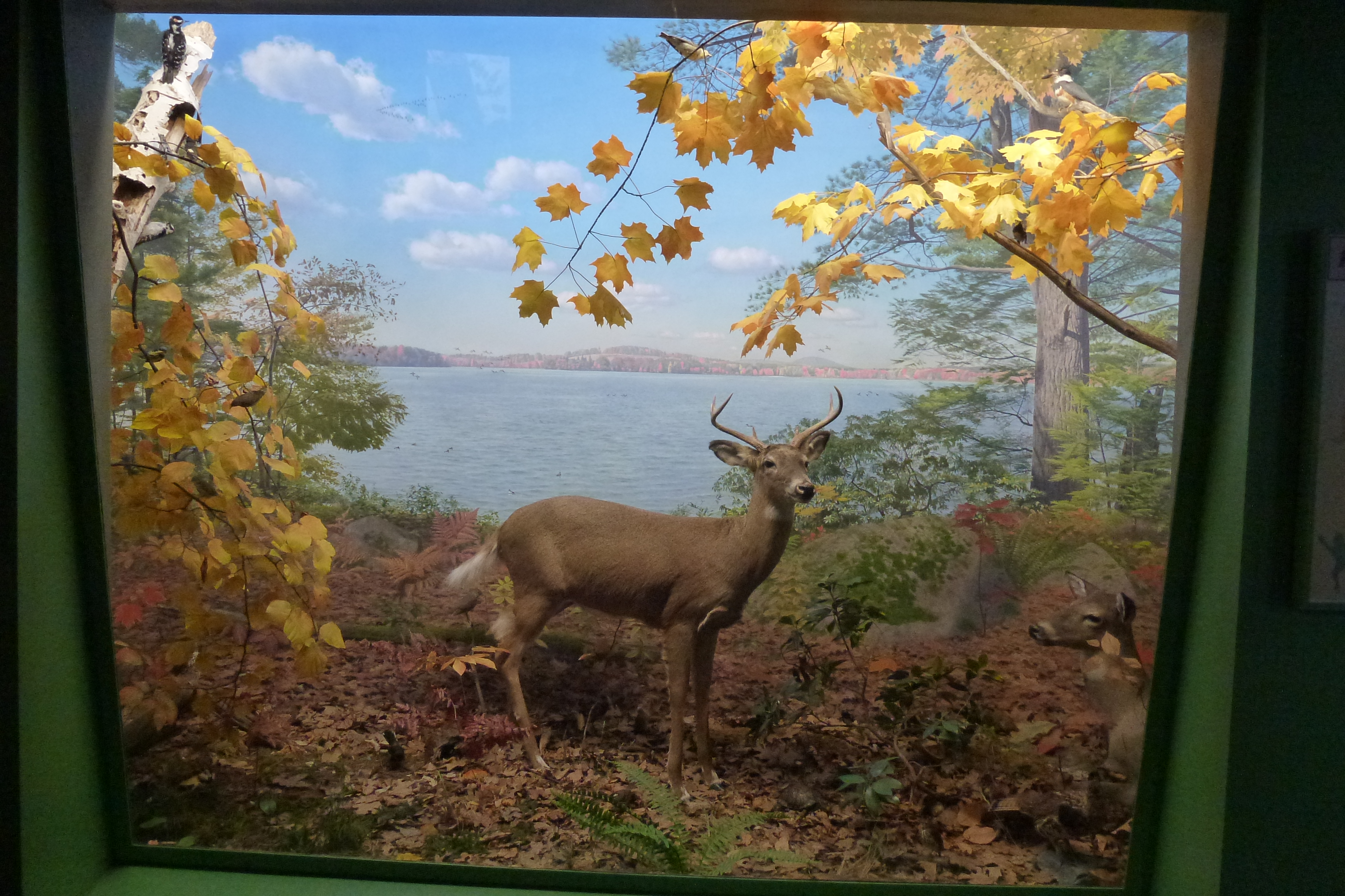 White Memorial Conservation Center, a natural history museum and nature preserve in Litchfield, CT. It is supported by the White Memorial Foundation.